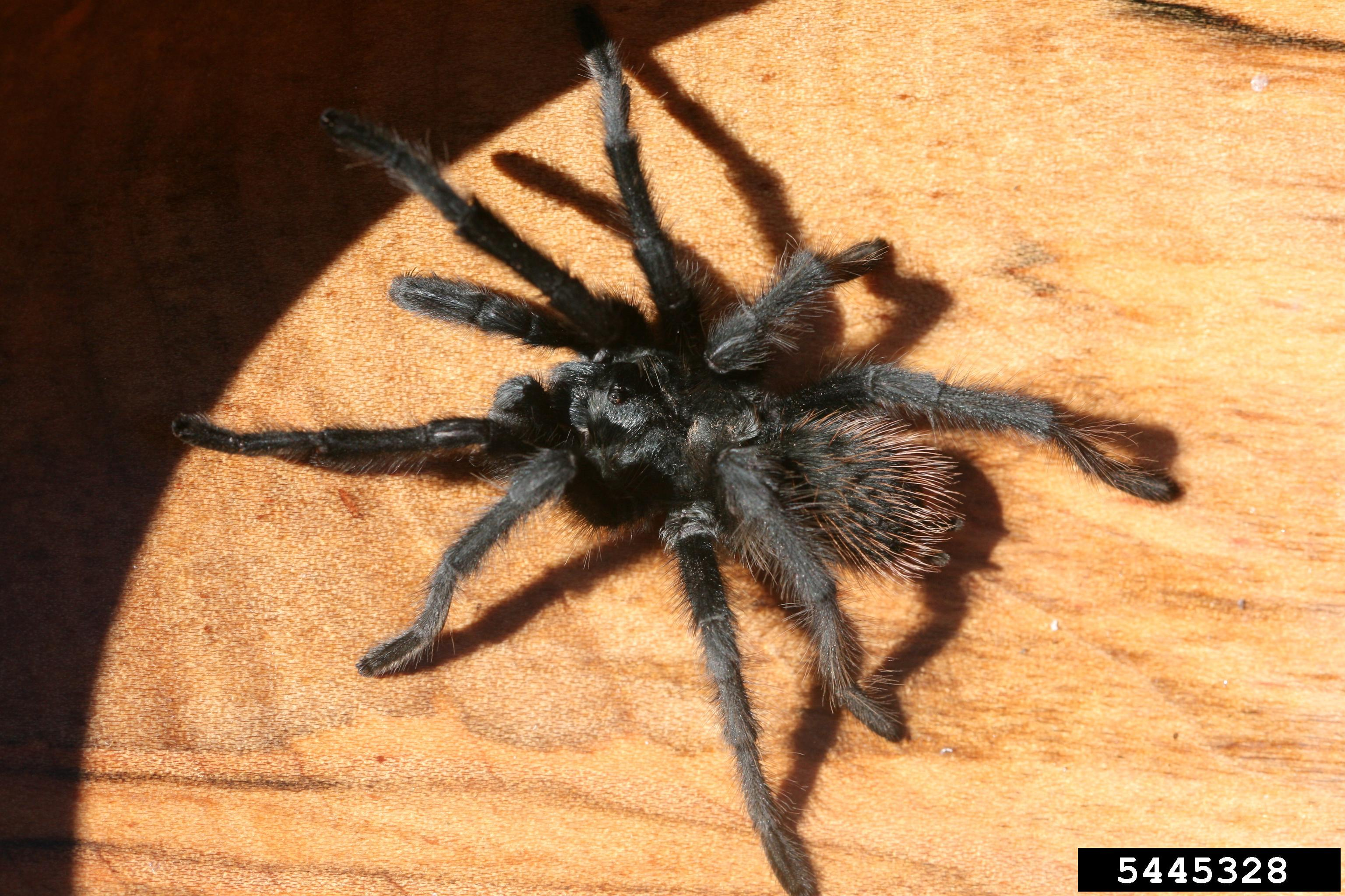 Spider species Aphonopelma vogelae from insectimages, now Aphonopelma marxi